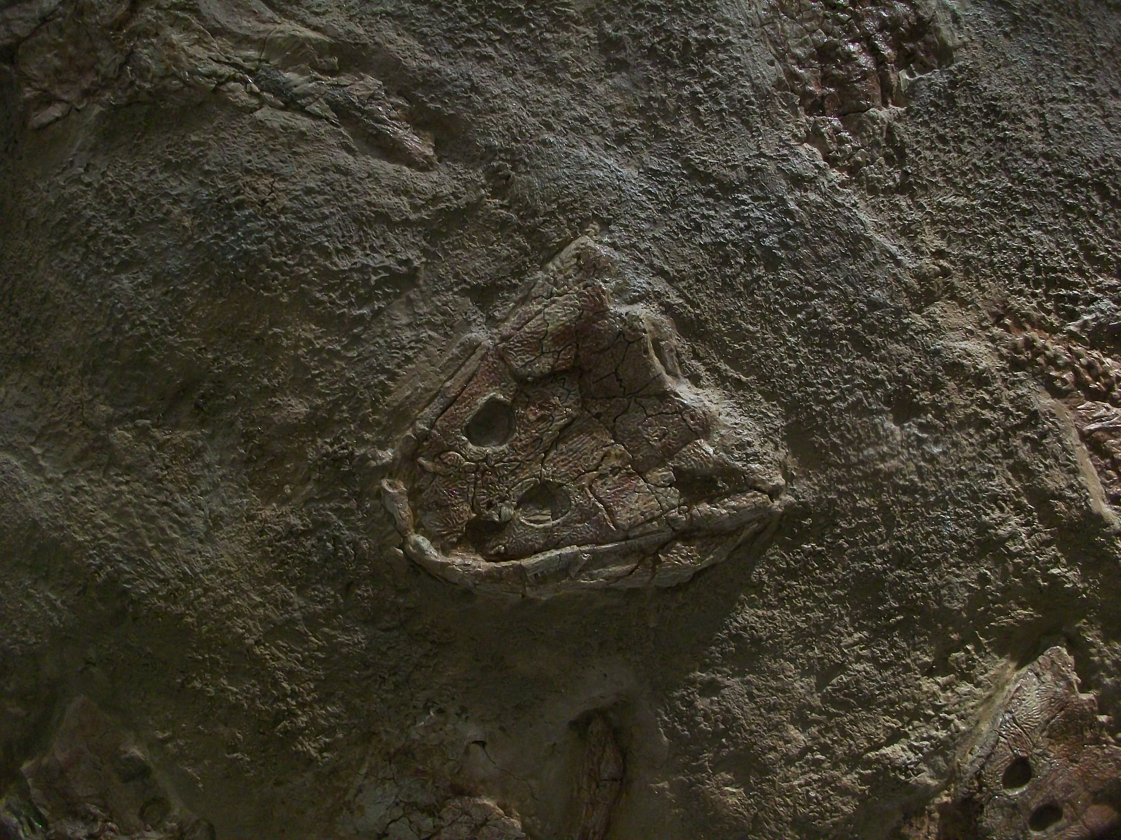 Dorsal view of a skull of Trimerorhachis insignis within a Trimerorhachis assemblage (specimen AMNH 4569) in the American Museum of Natural History.